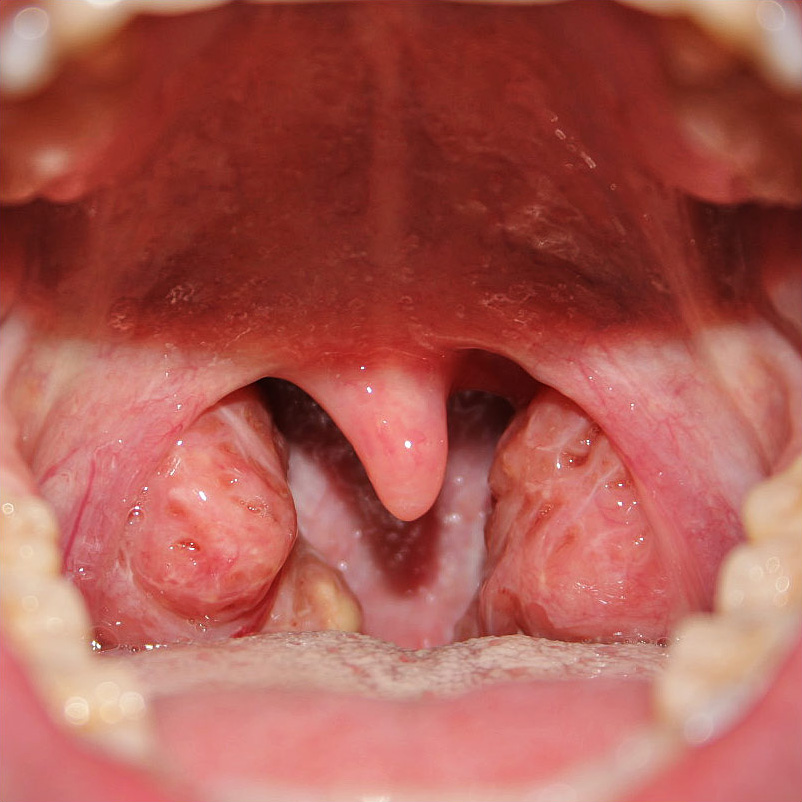 Human throat with tonsils